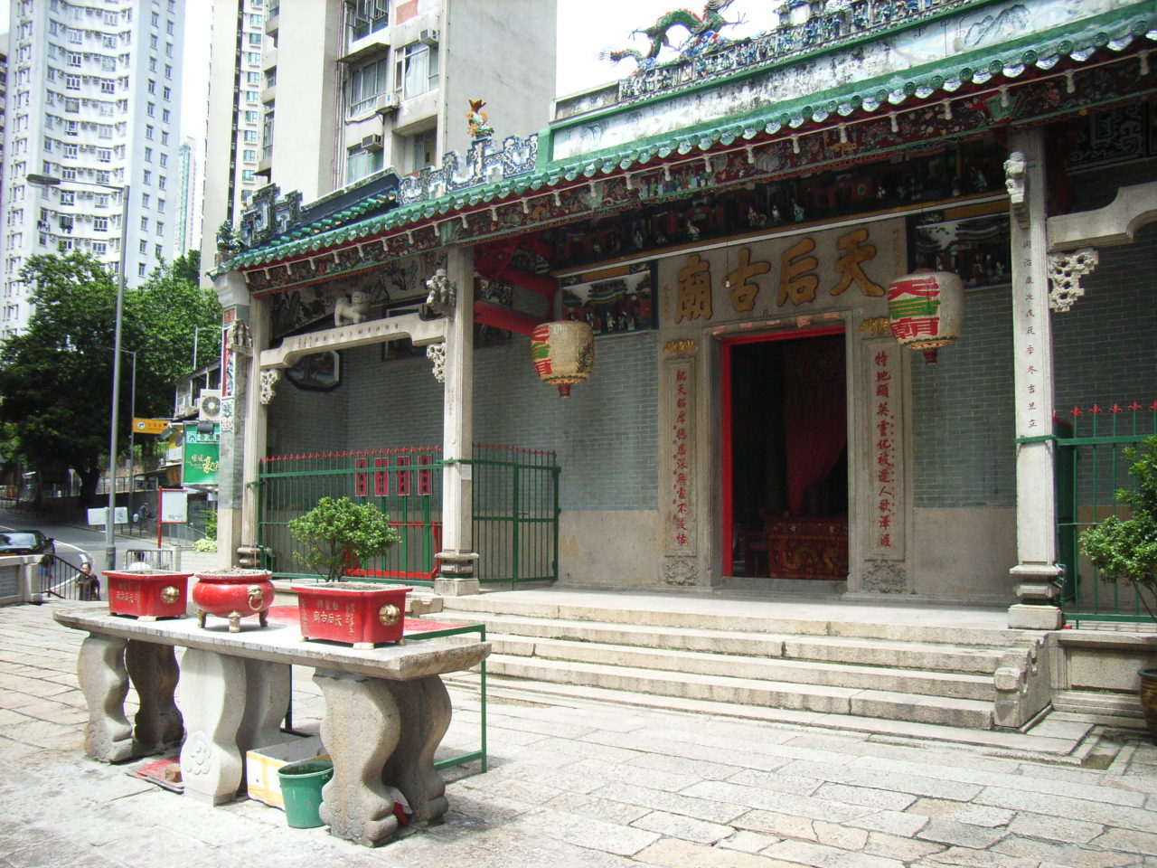 Tin Hau Temple, Tin Hau district, Hong Kong Author: BEVERLYSHEN